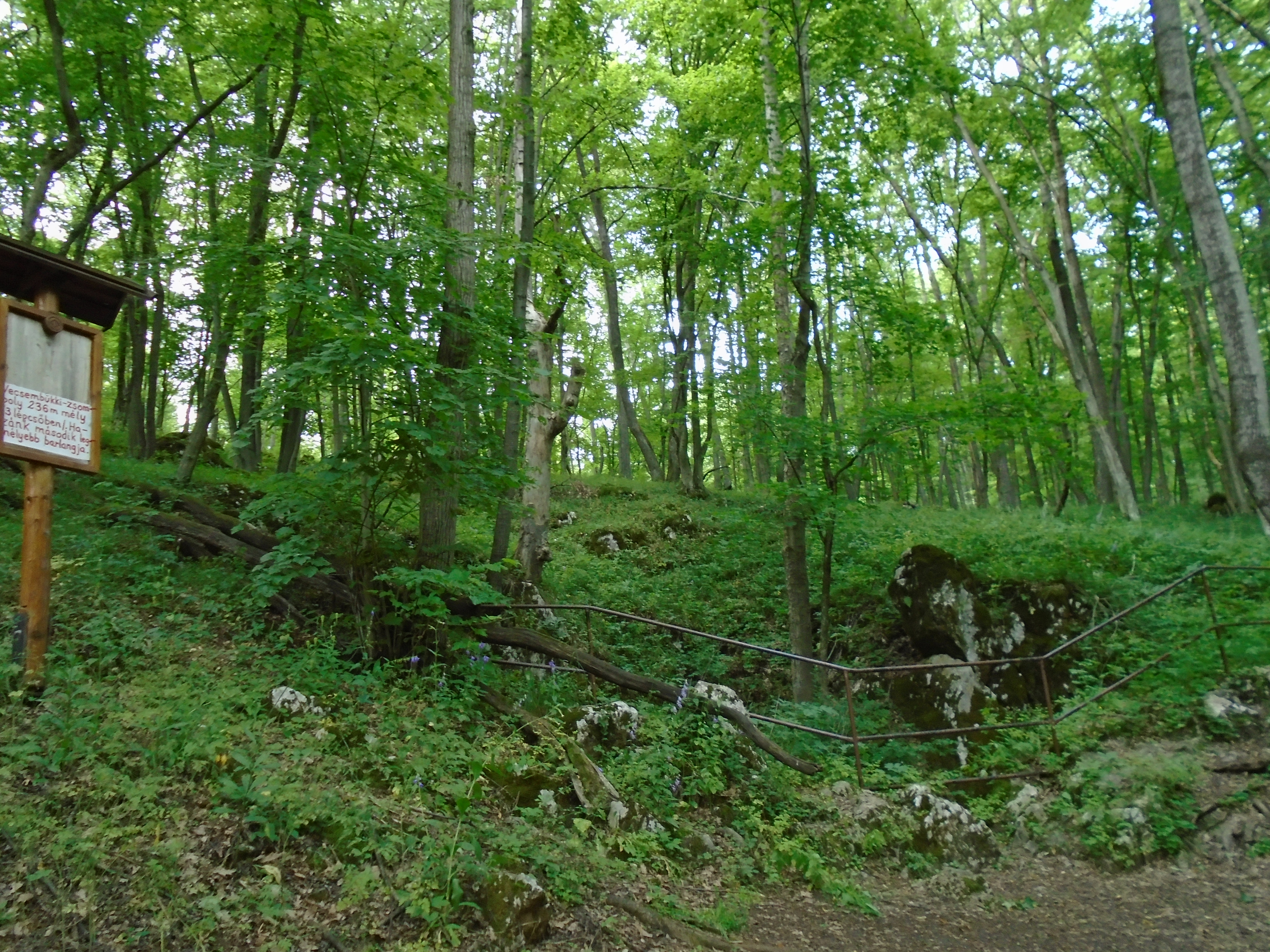 Entrance of Vecsembükk Pothole, Aggtelek Karst, Bódvaszilas